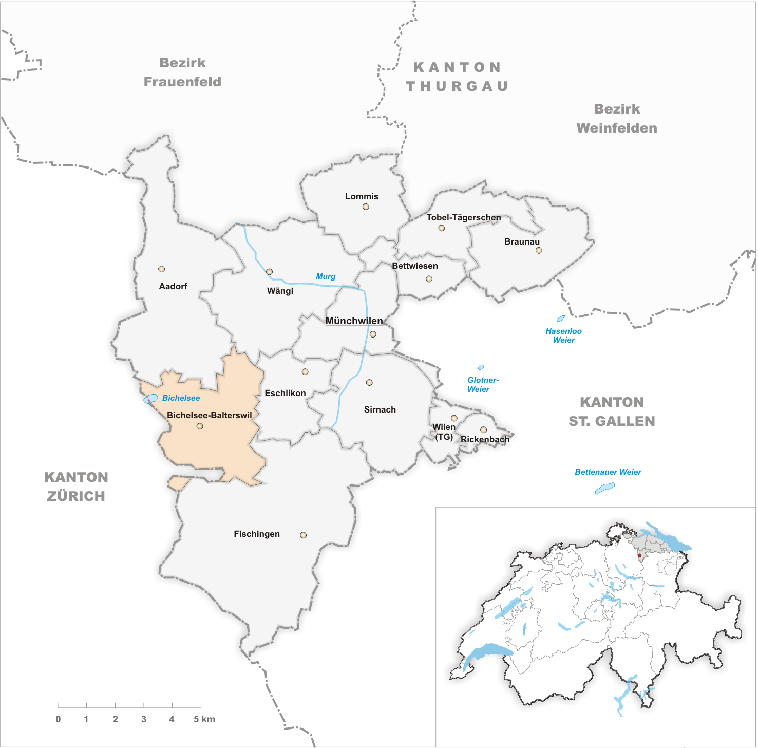 Municipality Bichelsee-Balterswil